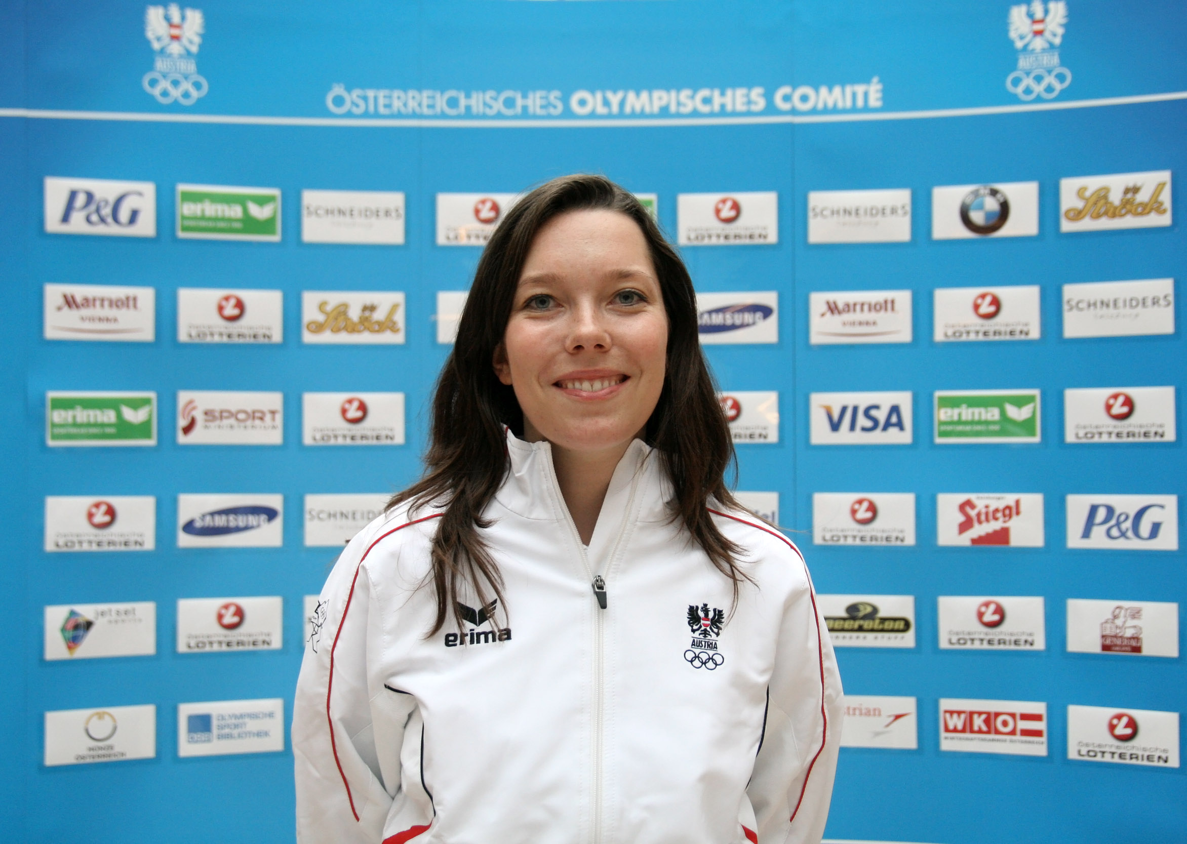 Shooter Stephanie Obermoser at the hand-out of the Austrian teams official attire for the 2012 Summer Olympics in London (Marriott, Vienna).